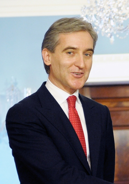 Iurie Leancă at the Department of State in Washington, D.C, March 2012.